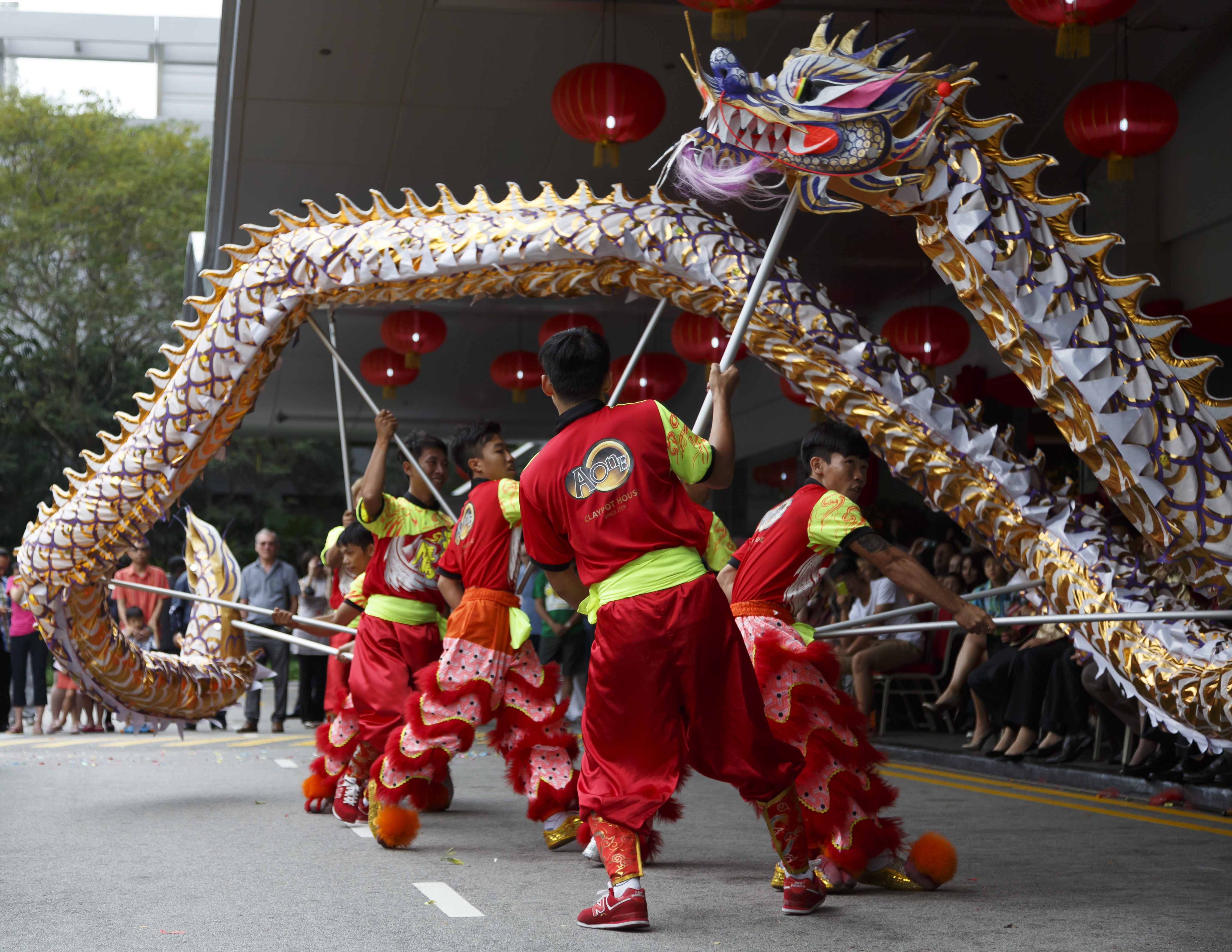 Singapore: A Dragondance performance during Chinese New Year 2015 celebrations